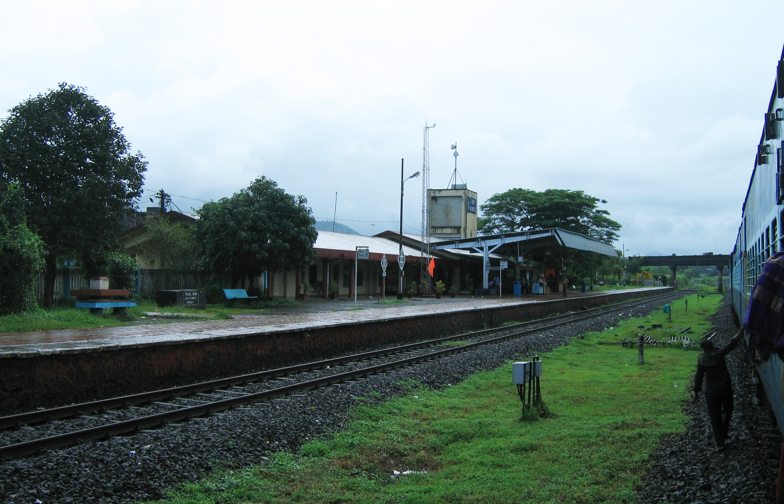 Konkan Railway - views from train on a Monsoon